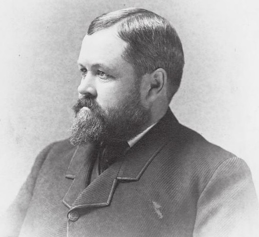 John H. Moffitt, Medal of Honor Recipient, Member of Congress from New York